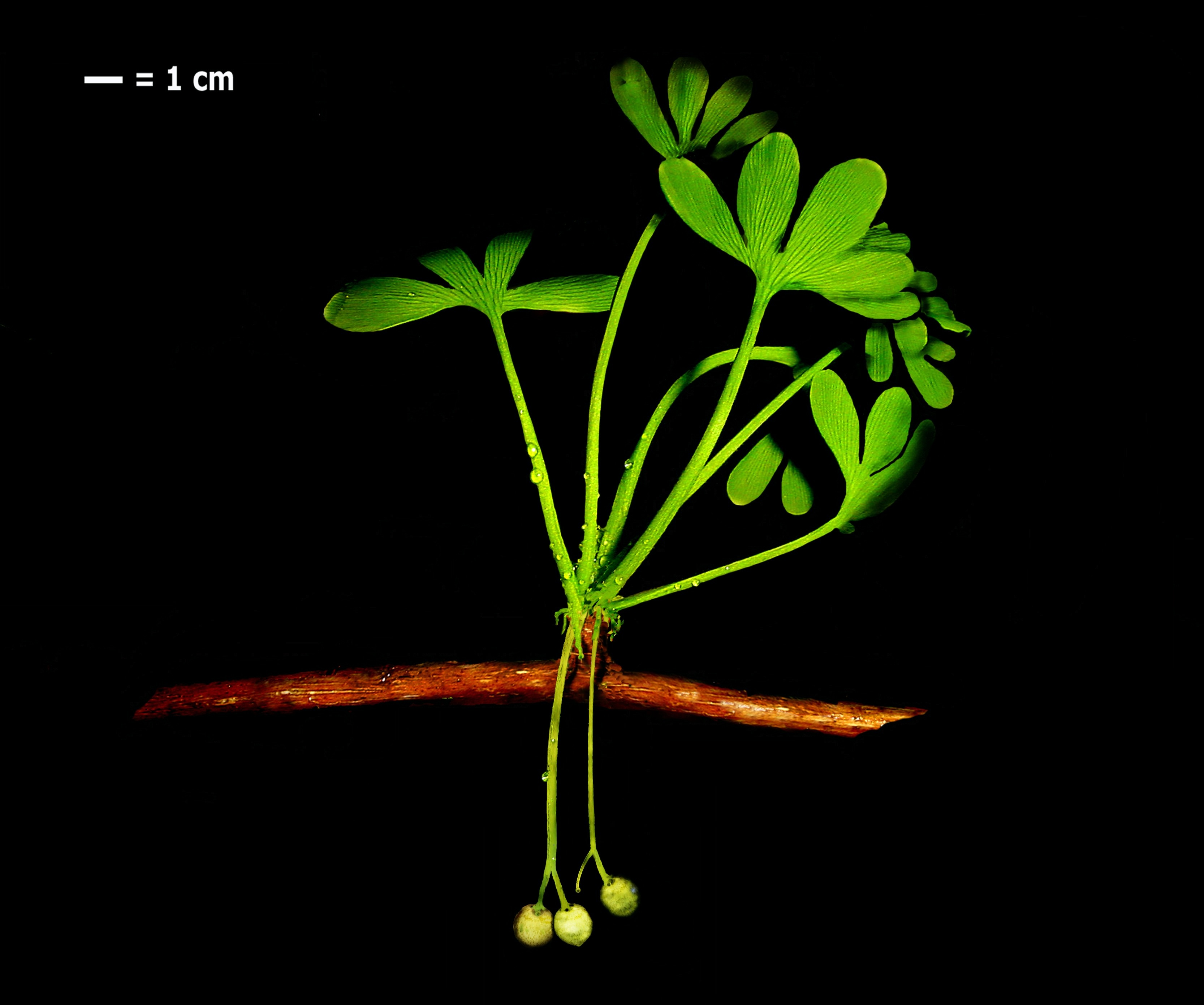 Reconstruction Ginkgo yimaensis by B M Begovic (2011)